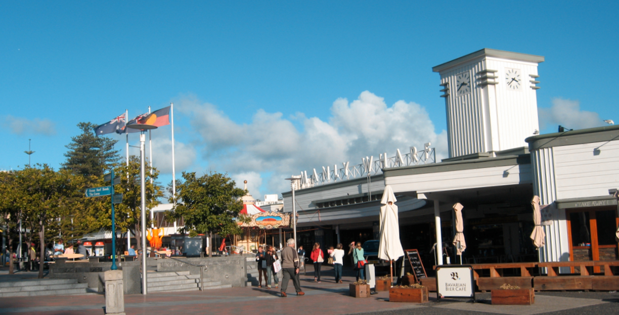 A photo of Manly Wharf.